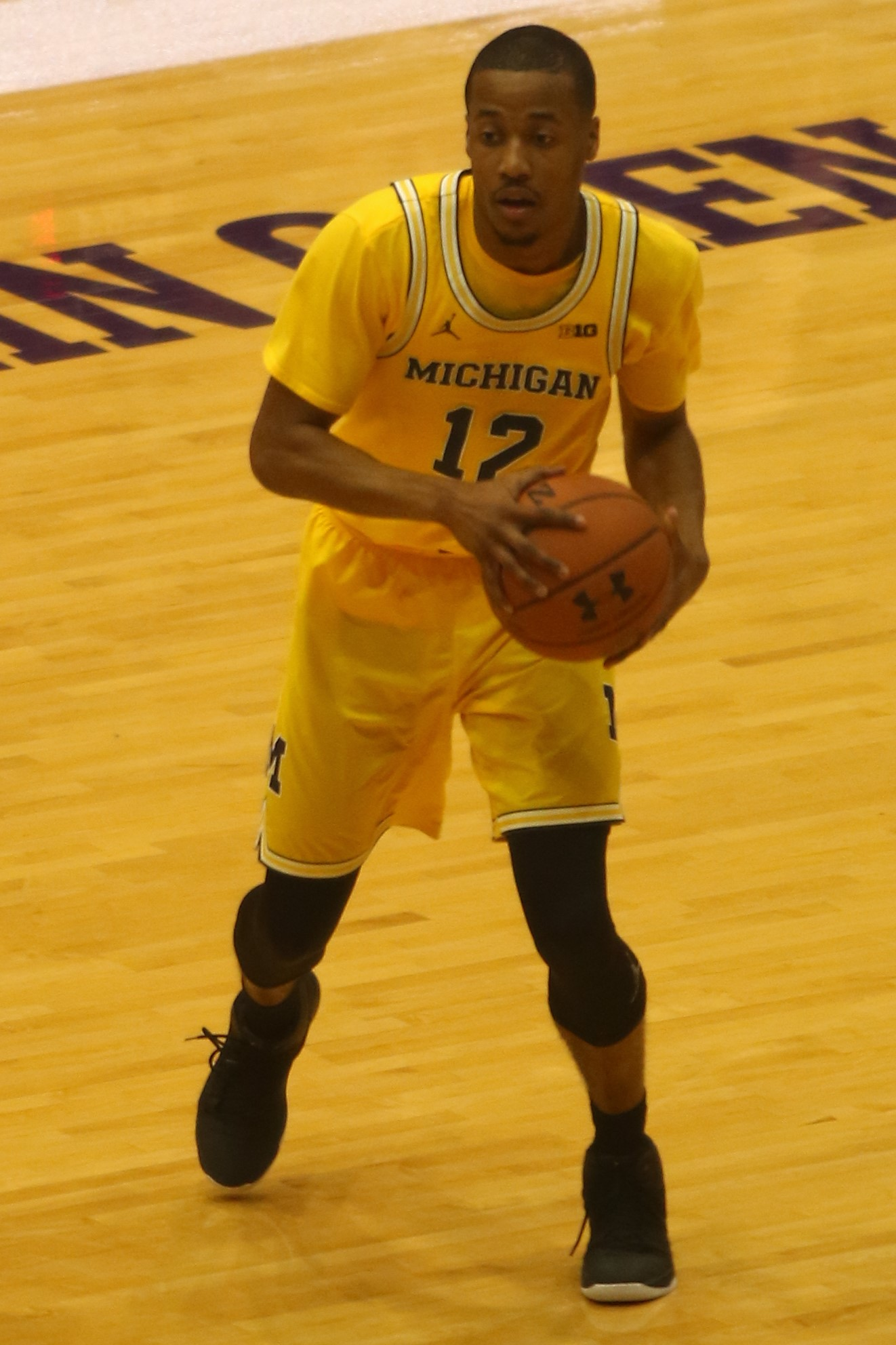 Muhammad-Ali Abdur-Rahkman of the w:2016–17 Michigan Wolverines men's basketball team